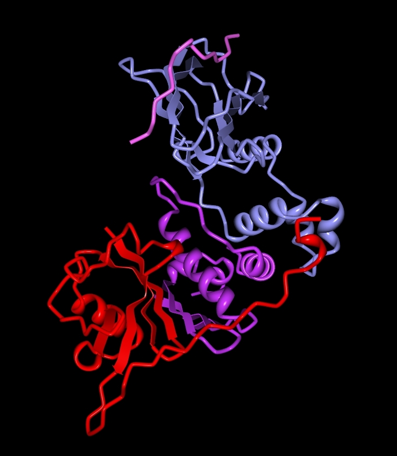 Structure of a HIF-1a-pVHL-ElonginB-ElonginC Complex; elongin B - chain B, elongin C - chain C, VHL protein - chain V, HIF1 alpha - chain H Created using MBT Protein Workshop and Data fom PDB (DOI 10.2210/pdb1lm8/pdb)- priimary source is Min, JH, Yang, H, Ivan, M, Gertler, F, Kaelin Jr., WG, Pavletich, NP Structure of an HIF-1alpha -pVHL complex: hydroxyproline recognition in signaling. Science 296 pp.1886-1889 (2002).